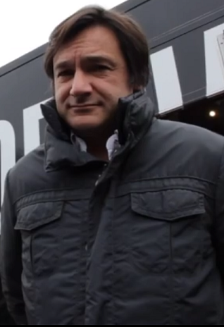 Image by Fabio Caressa taken from an interview published under Creative Commons license - Image obtained by crop screen and resized